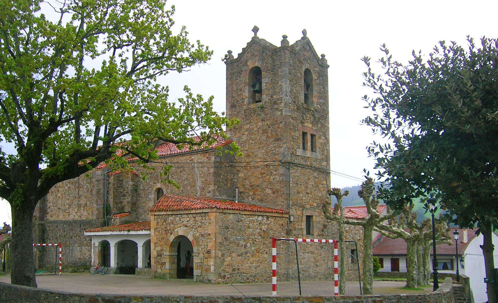 Church in Seña, Limpias, Cantabria, Spain.